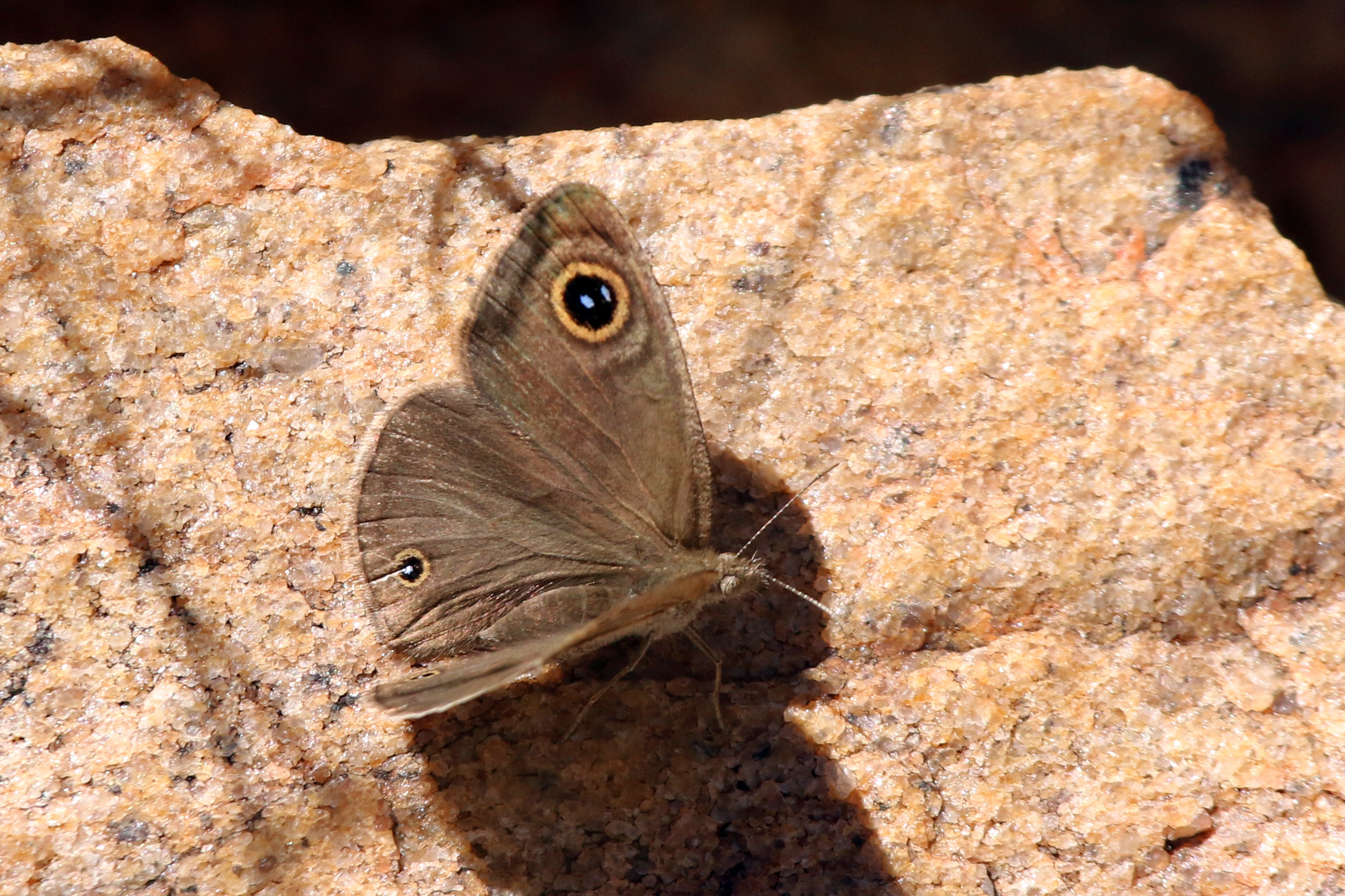 African ringlet butterfly (Ypthima asterope), Tswalu Kalahari Reserve, South Africa